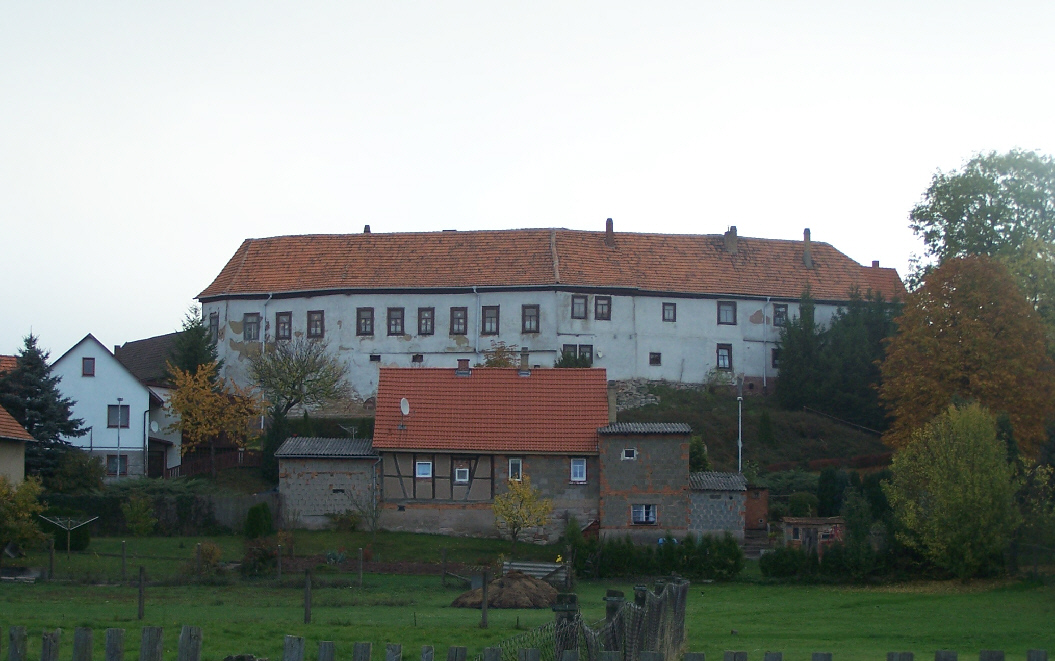 The castle of Unterellen.